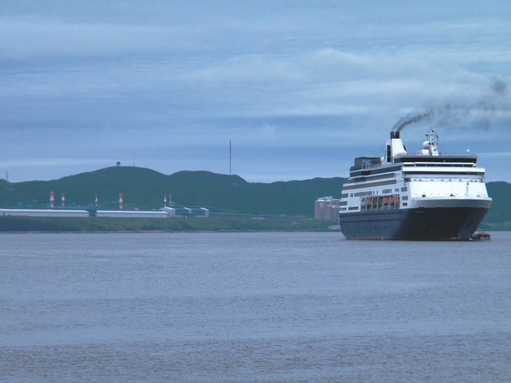 The great ms Maasdam in Sept-Iles